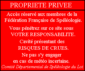 Gouffre du Saut de la pucelle, Rocamadour, Lot, France: red warning sign bolted in the rock at cave's entrance.